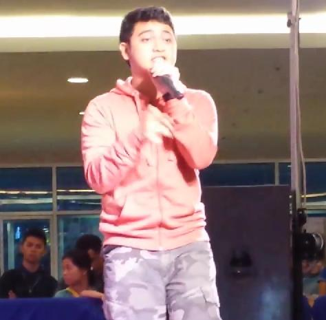 Shehyee performing on Iloilo City live during a mall show.